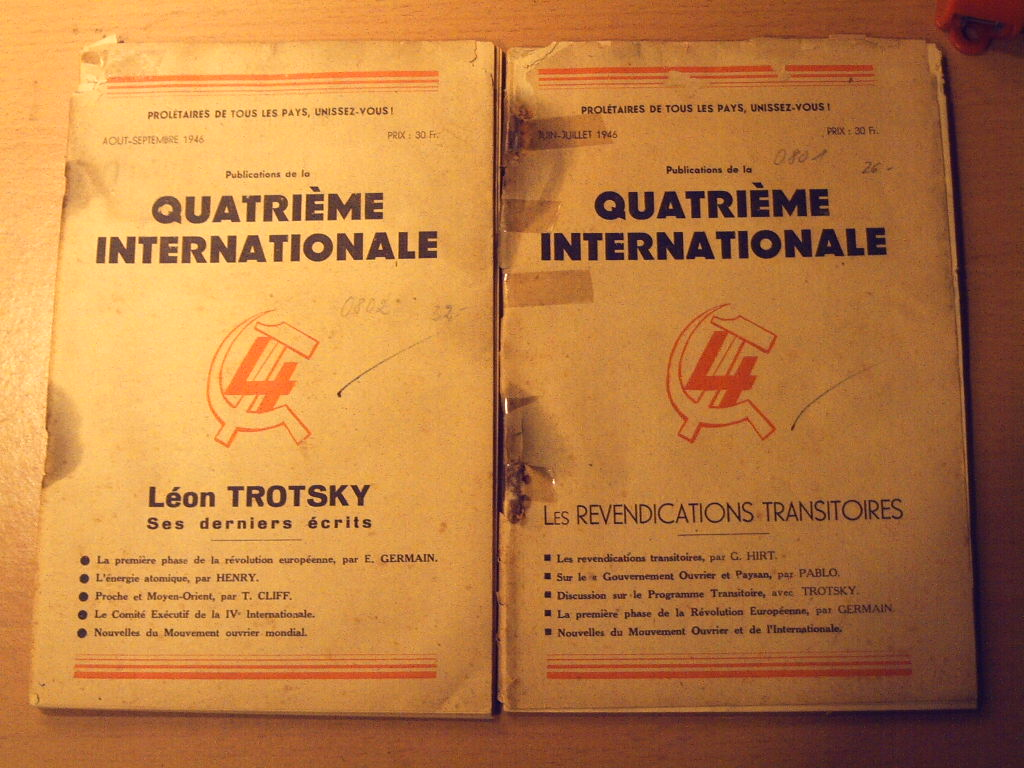 foto of two copies of the journal "Quatrième Internationale"/Foto von zwei Ausgaben der Zeitschrift "Quatrième Internationale"